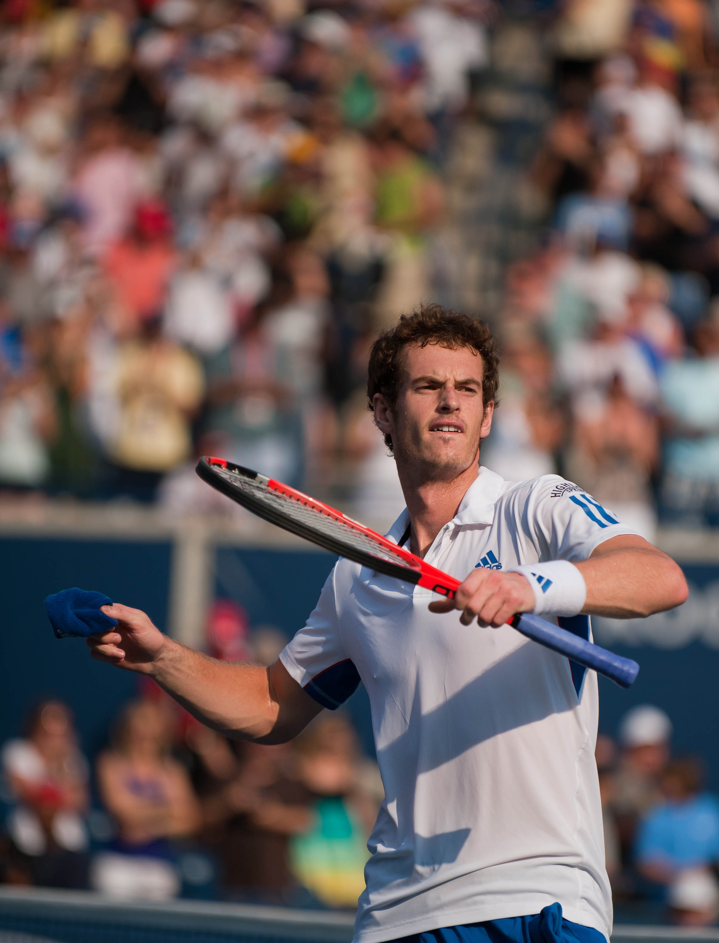 Andy Murray throws his sweatband into the crowd.